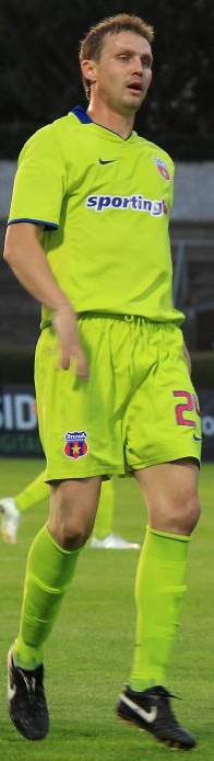 Sorin Ghionea in St.Pats v Steaua Bucharest.